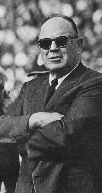 Purdue University football coach Jack Mollenkopf